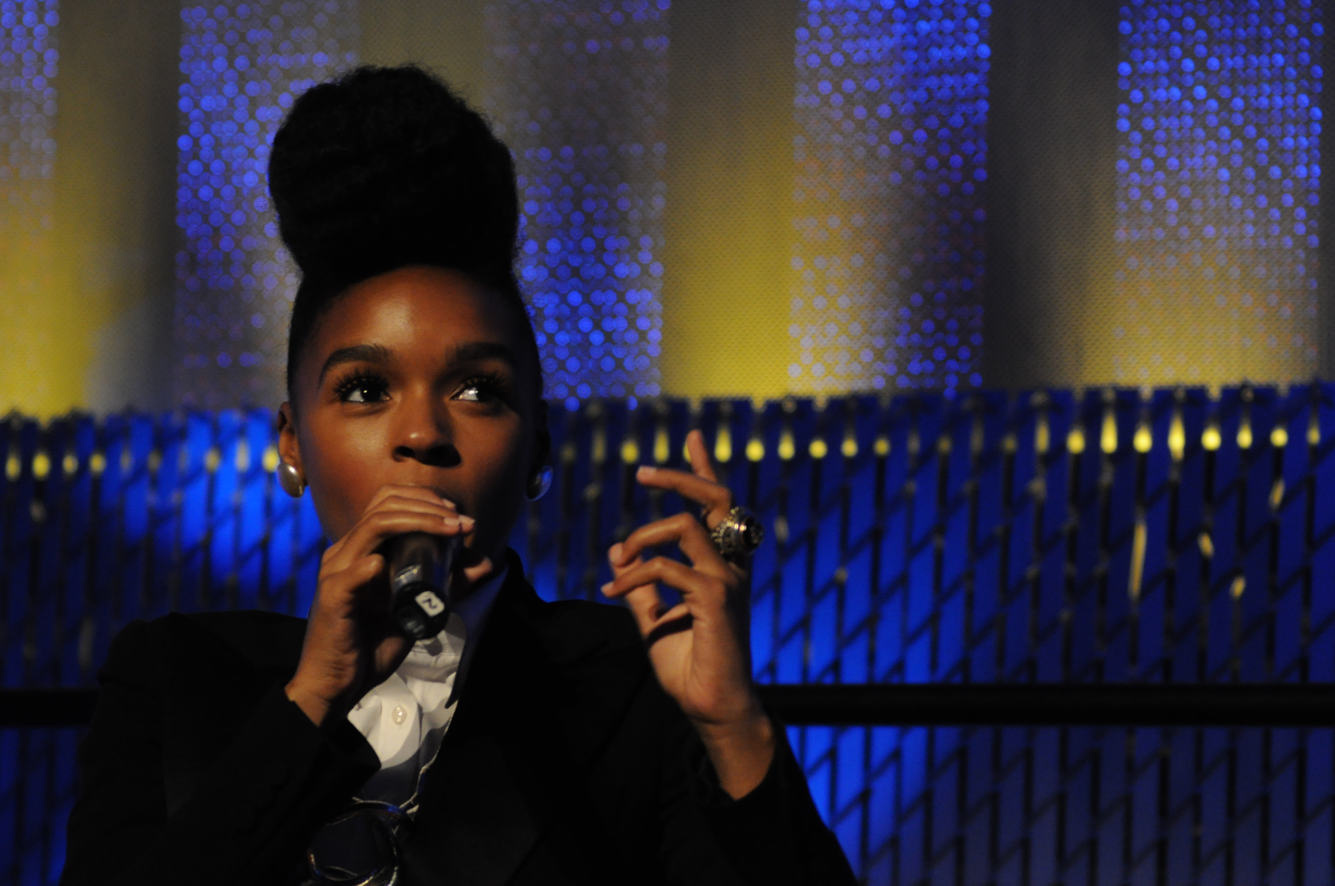 Janelle Monáe on the keynote panel of the 2010 Pop Conference, EMPSFM, Seattle, Washington.